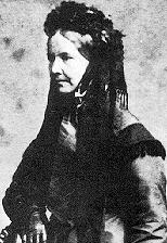 Ellen Nussey (1817 – 1897)